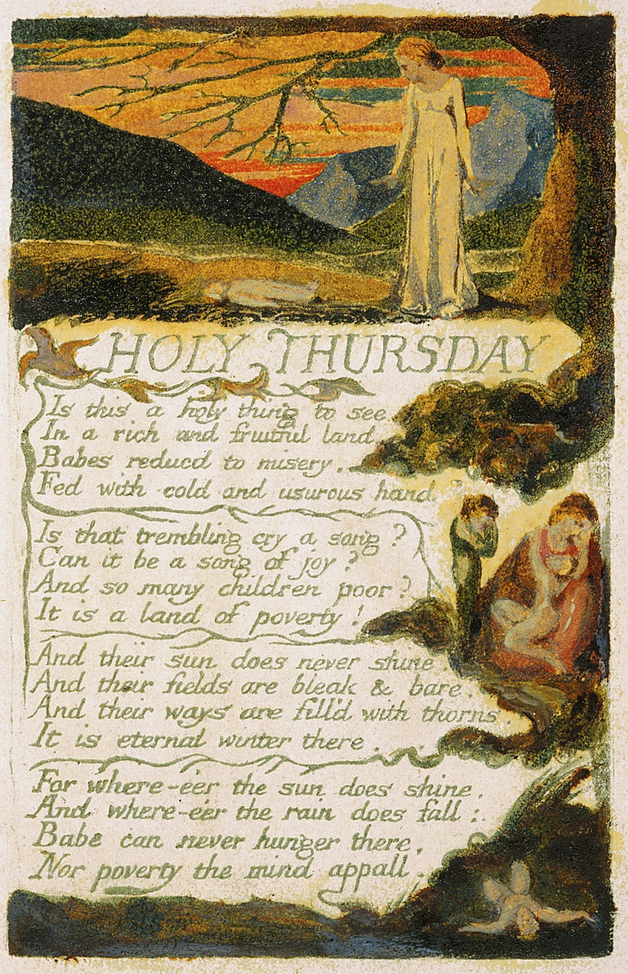 Songs of Innocence and of Experience, copy F, object 38 (Bentley 33, Erdman 33, Keynes 33) "HOLY THURSDAY"